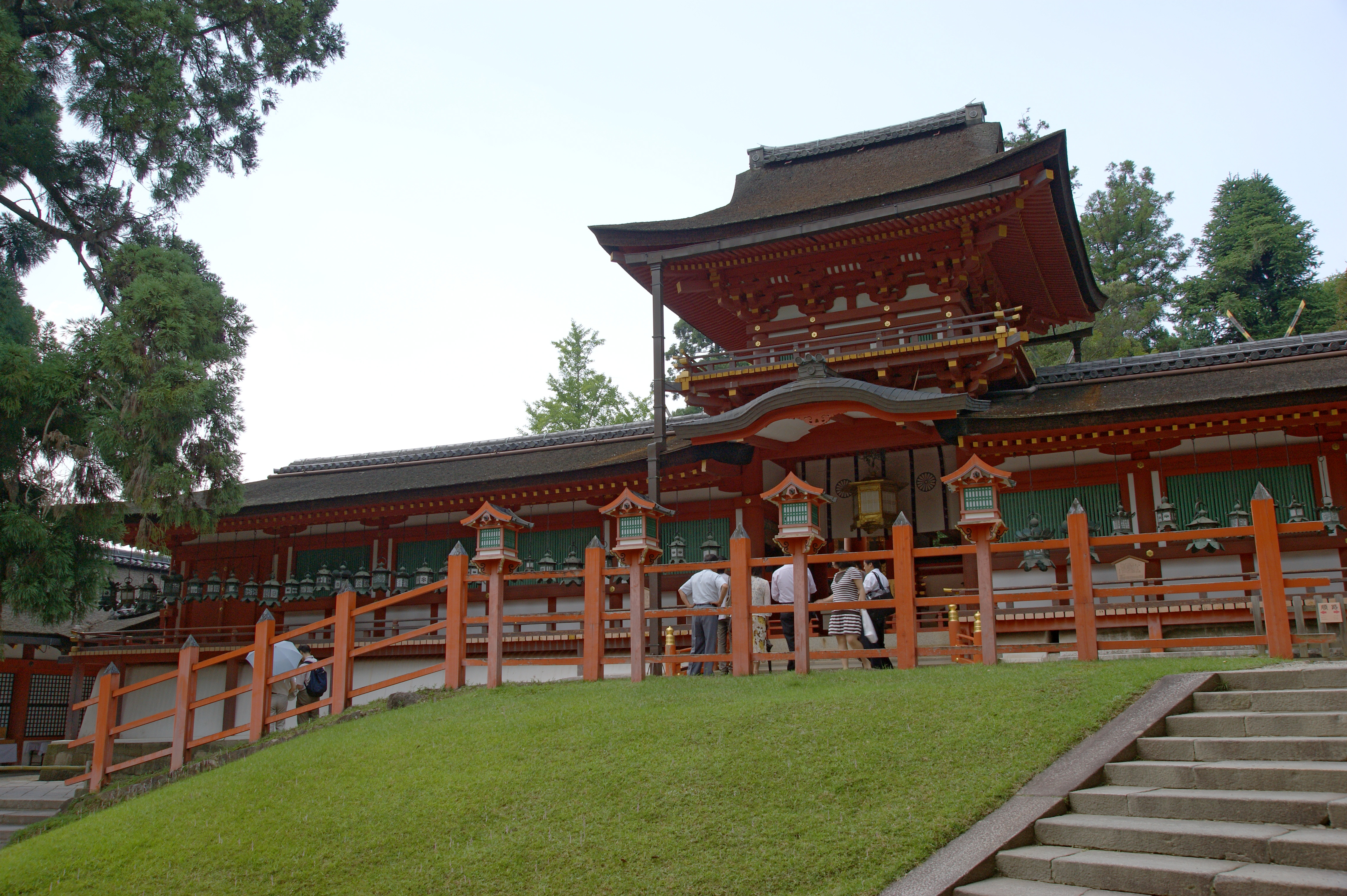 Kasuga-taisha in Nara, Nara prefecture, Japan